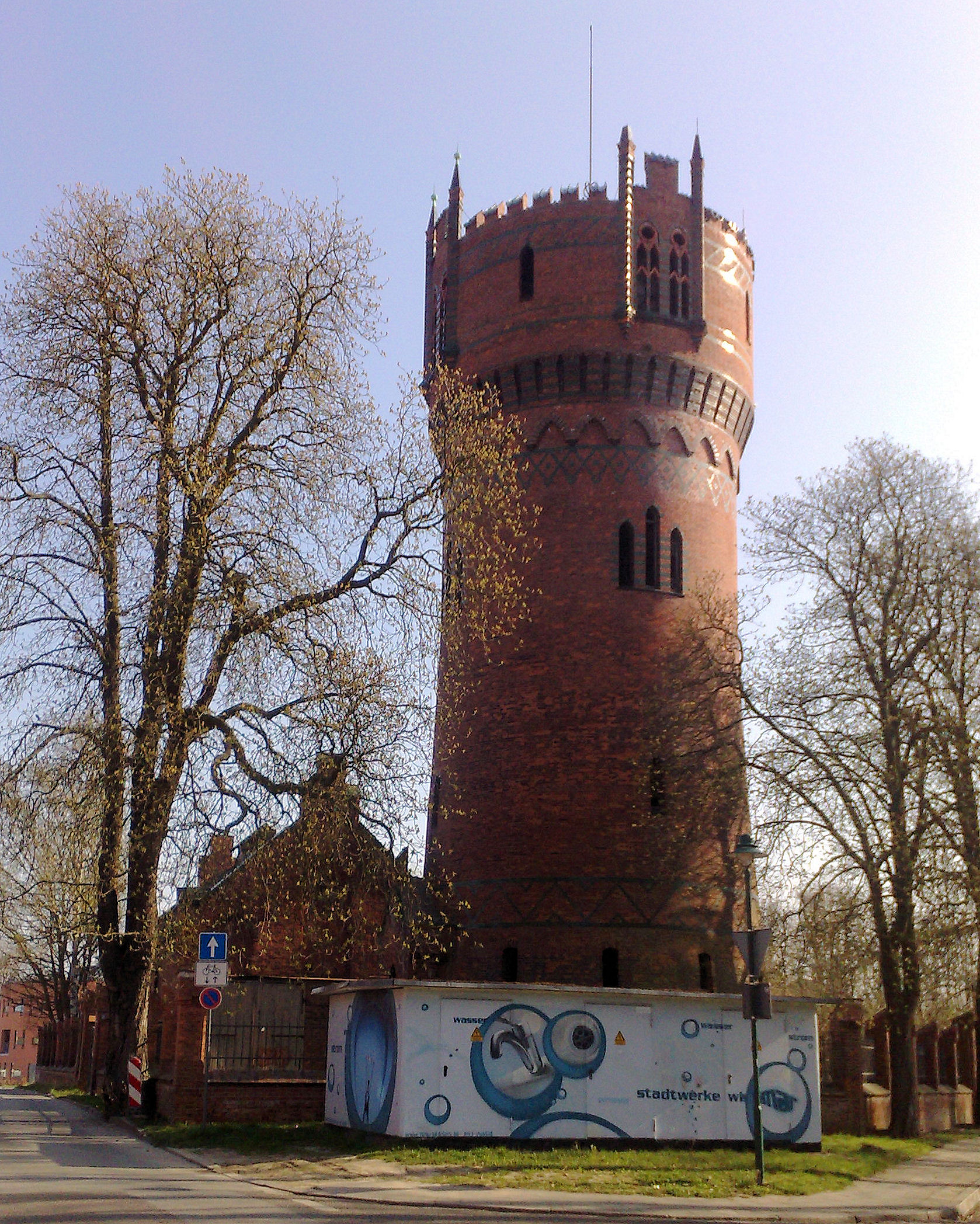 Water tower from 1897 at square Turnplatz in Wismar, Mecklenburg-Vorpommern, Germany